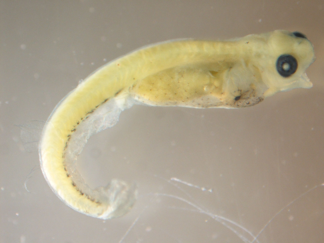 Fish larvae, walleye. July 2010.